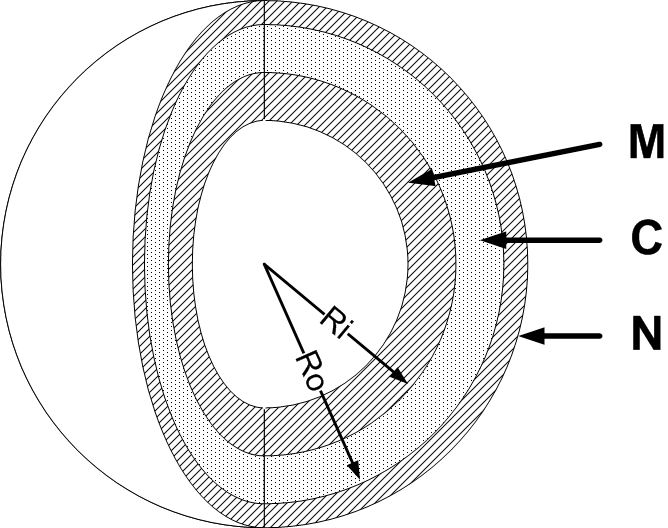 Gurney equations explosives engineering diagram of spherical implosion. Uniformly initiated hollow sphere of explosives of mass C, with outer tamper mass N and inner flyer plate shell of mass M.